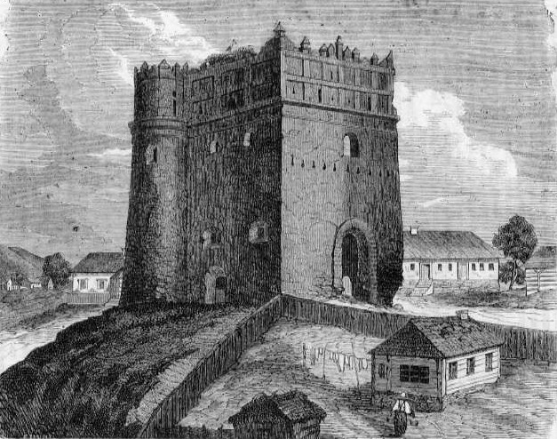 Lutsk gate, Ostroh.